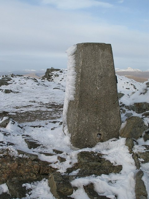 Triangulation pillar, Ben Vorlich A view past the triangulation pillar to the summit cairn above a small crag. The pillar is about 2m lower than the summit which is on the next bump to the north.